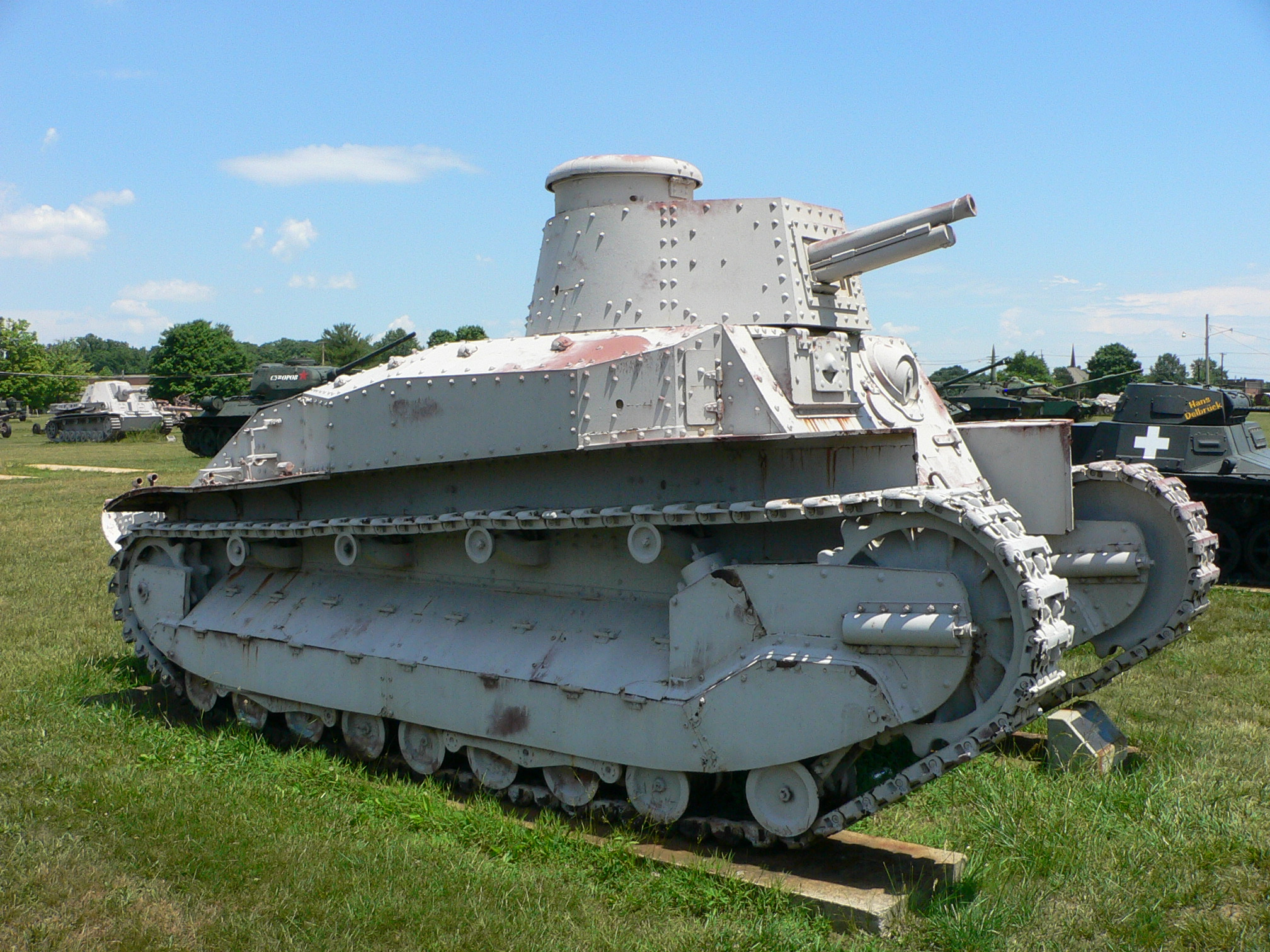 Picture taken by myself, Mark Pellegrini, at the United States Army Ordnance Museum (Aberdeen Proving Ground, MD) on June 12, 2007.